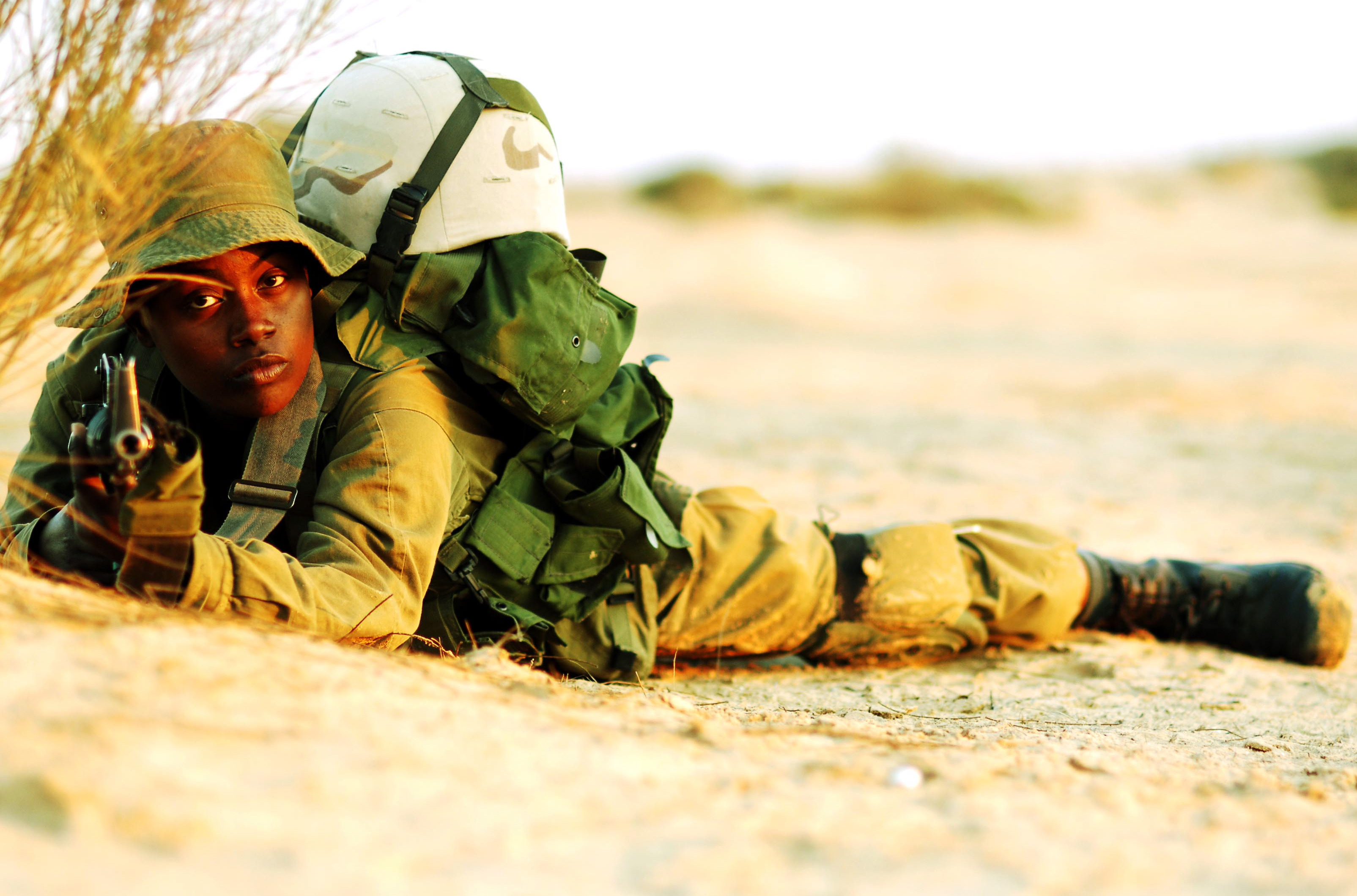 Seen here is a woman who is part of the first group of female combat soldiers in the Nachshol Platoon, a field intelligence unit. Capt. Shirli Galez, then-head of the unit, said "this is a field unit like all others, they must be fully prepared to go out into the field in order to gather intelligence. The platoon proves that women can fully operate as combat soldiers."